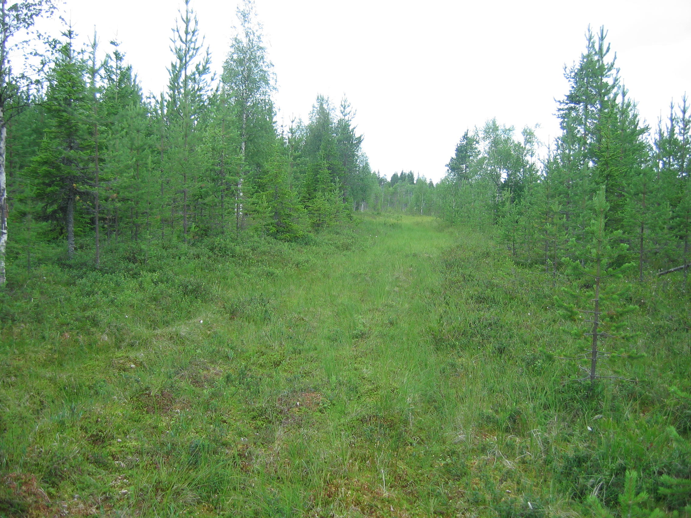 The old winter road from Kavala to Saunakangas along Piltuanjoki in Pudasjärvi, Finland.